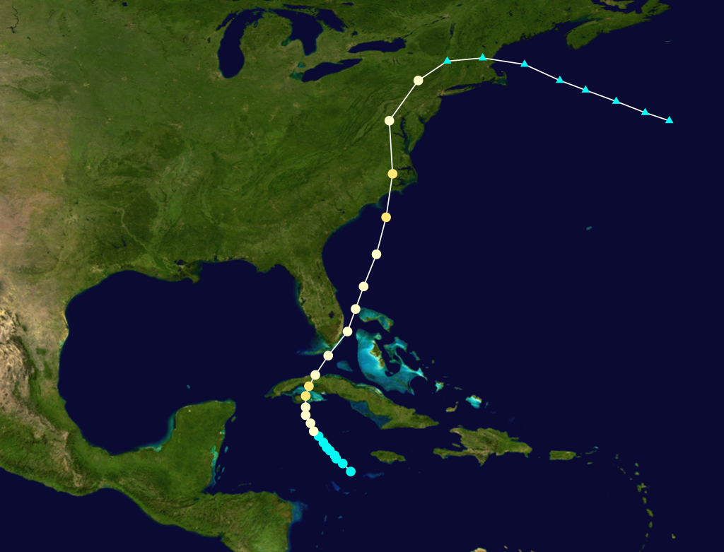 1878 Atlantic hurricane track. Uses the color scheme from the Saffir-Simpson Hurricane Scale.